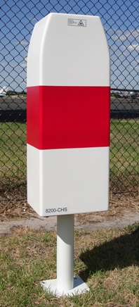 Laser ceilometer. The markings on the housing identify it as an MTECH 8200-CHS Ceilometer. Based on LIDAR technology, this cloud height detector is a compact single-lens design.